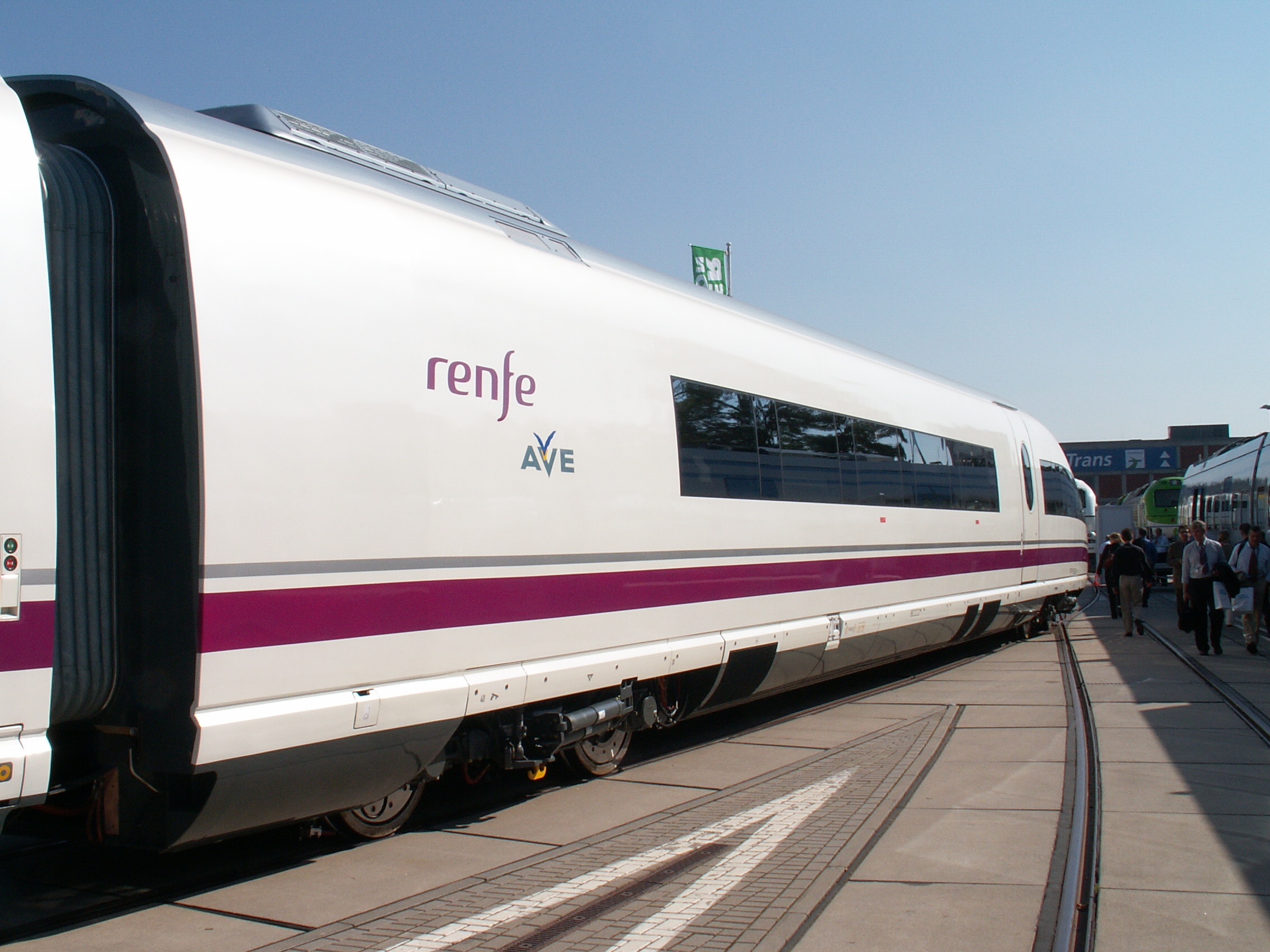 The front car of a Siemens "Velaro E" (AVE-S 103) train at the "InnoTrans" 2006.